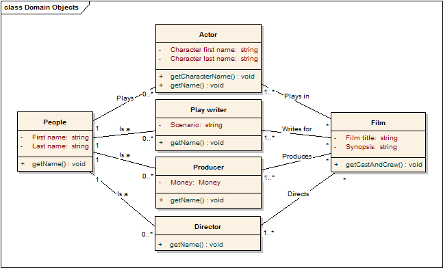 An example of the Inheritance Role Model applied to the cinema domain.